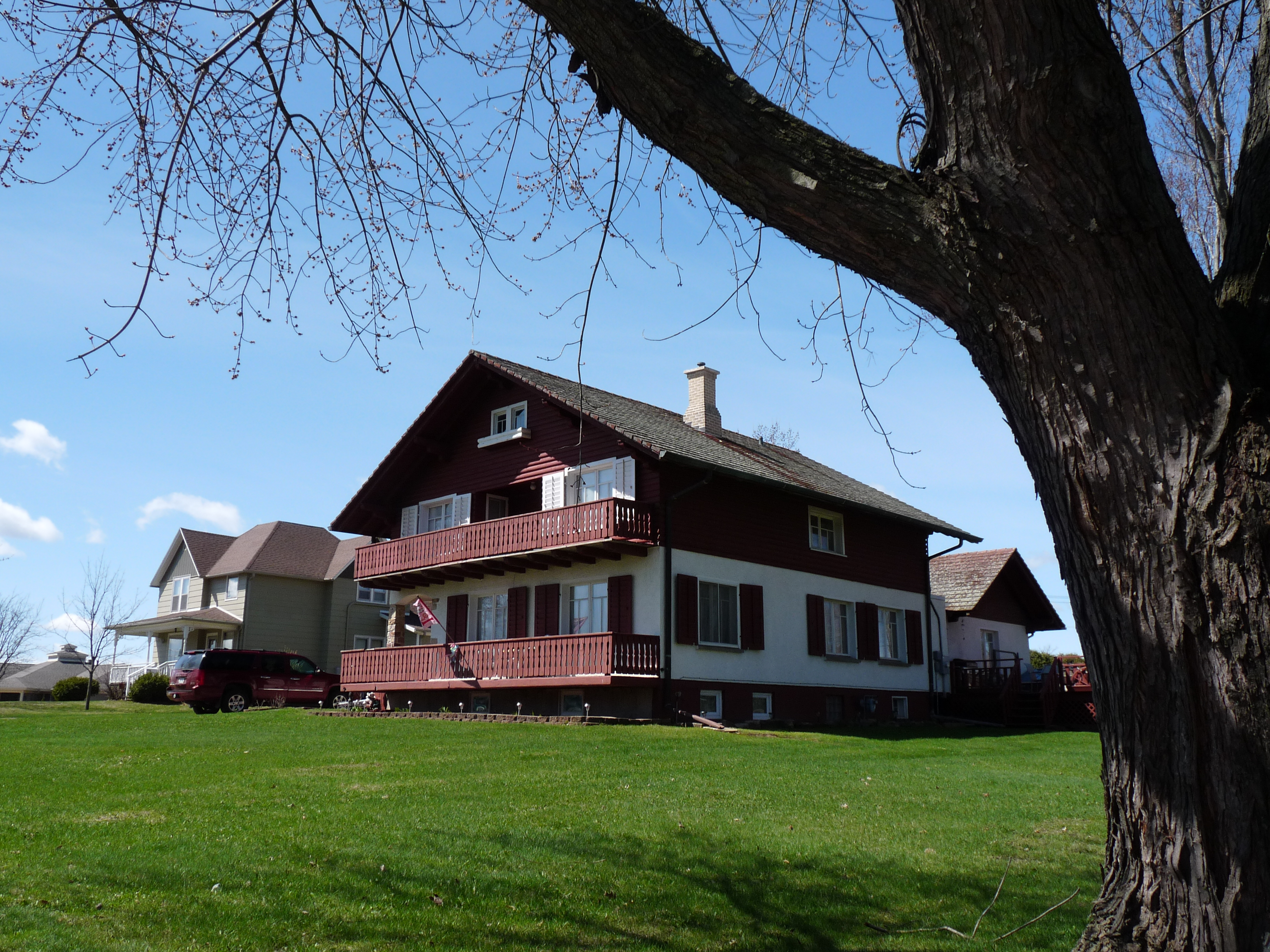 Swiss immigrants Herman M. and Hanna Hediger built this house in Neillsville, Wisconsin in the style of a Swiss chalet in 1949. It was listed on the National Register of Historic Places in 2013.